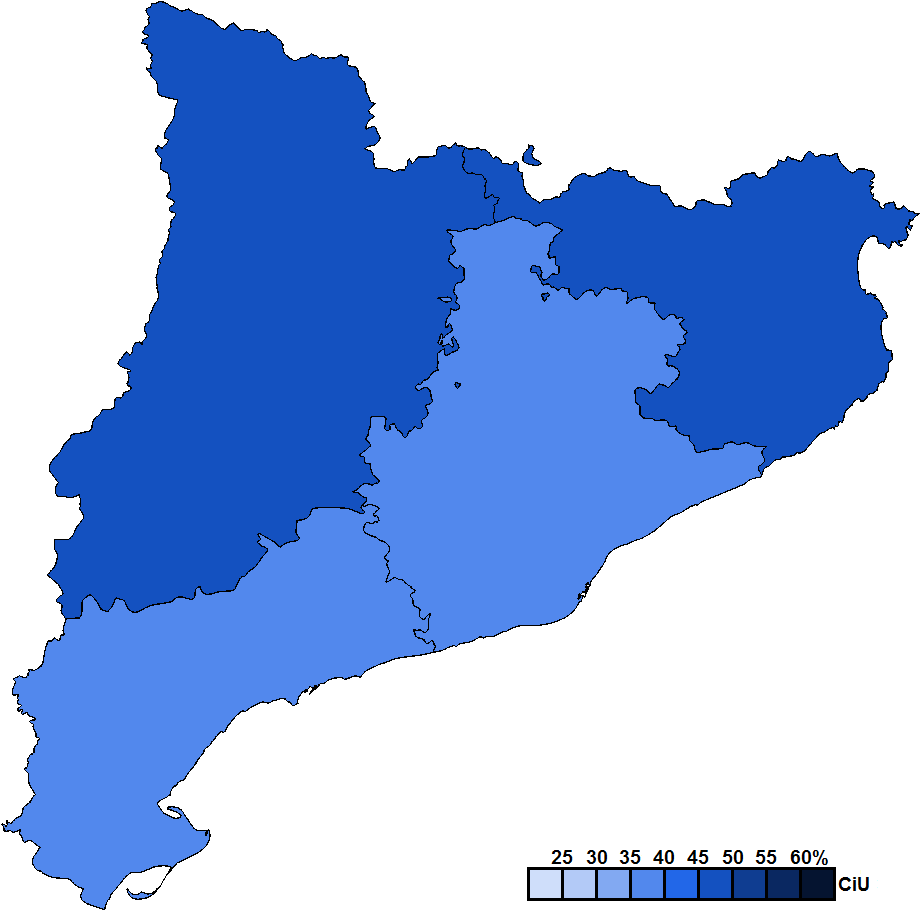 Provincial results for the 2010 Catalan regional election.